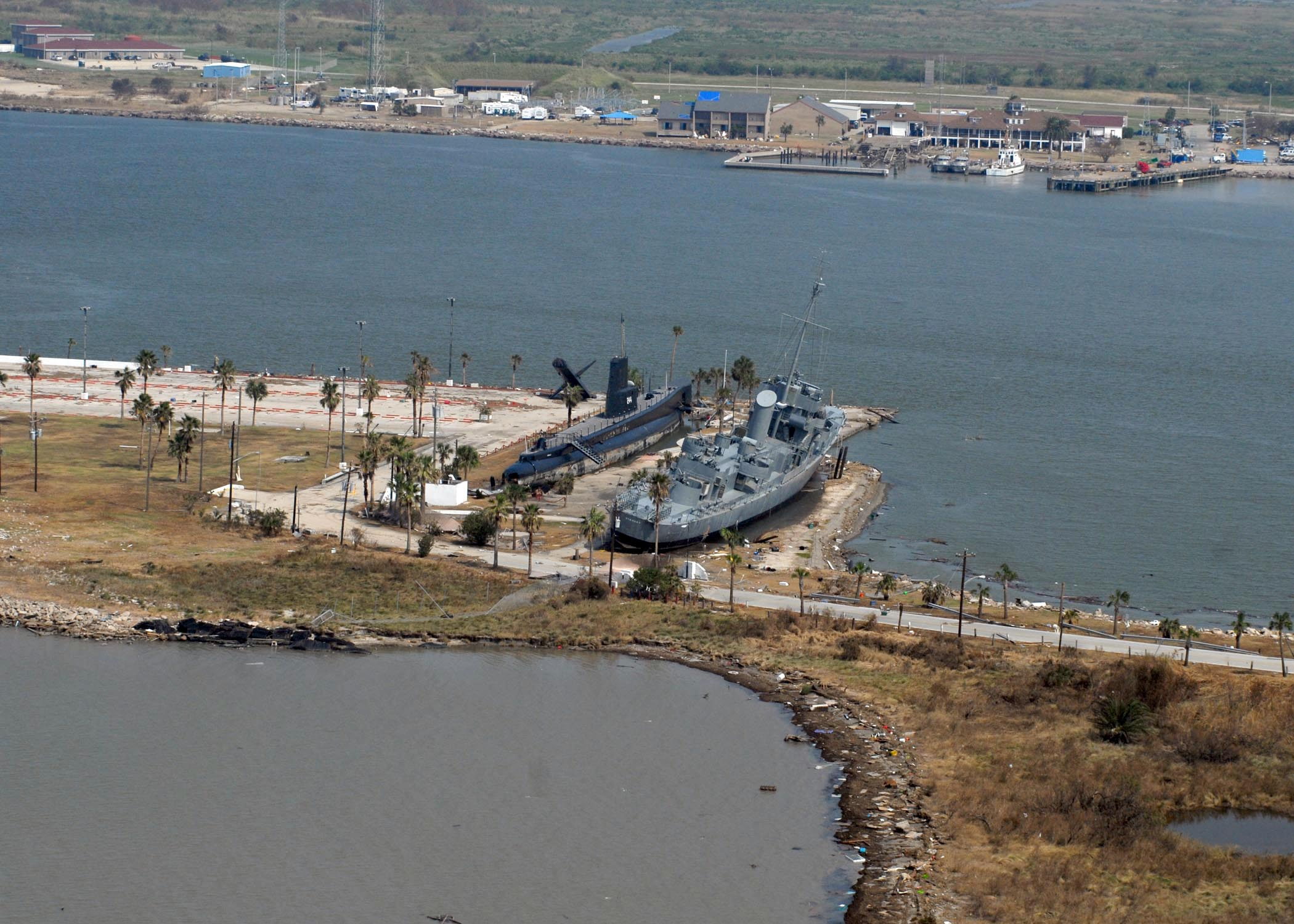 080919-N-6575H-603 GALVESTON, Texas (Sept. 19, 2008) The Edsall-class destroyer escort USS Stewart (DE-238) and the Gato-class submarine USS Cavalla (SS-244), both museum display ships at Seawolf Park on Pelican Island in Galveston, Texas, incurred little damage during Hurricane Ike. (U.S. Navy photo by Chief Mass Communication Specialist Chris Hoffpauir/Released)